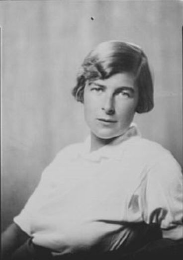 Arnold Genthe (1869-1942)/LOC agc.7a11810. Miss Isabel Pell, 1930